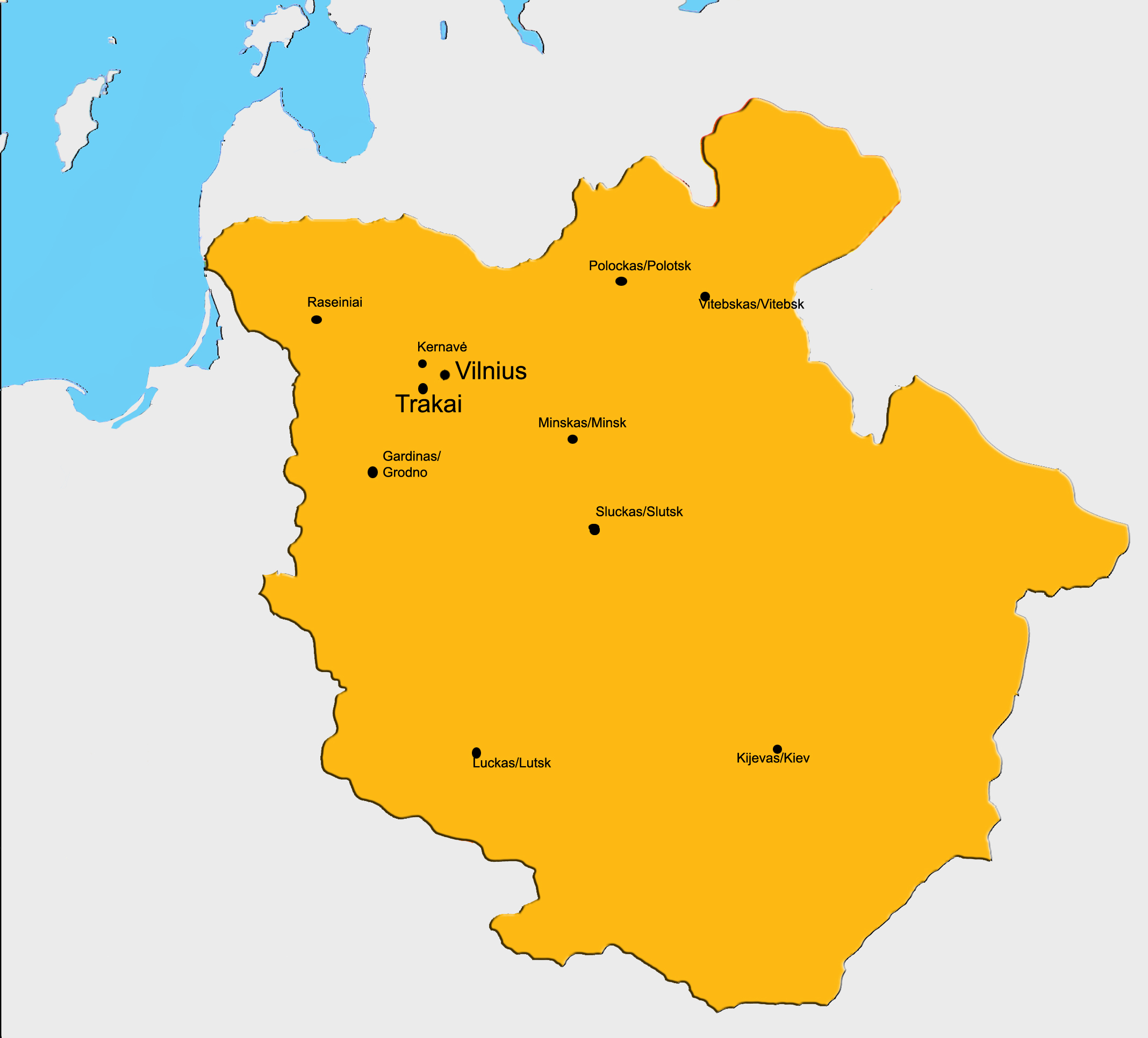 Historical map of Lithuania at 1345-1377